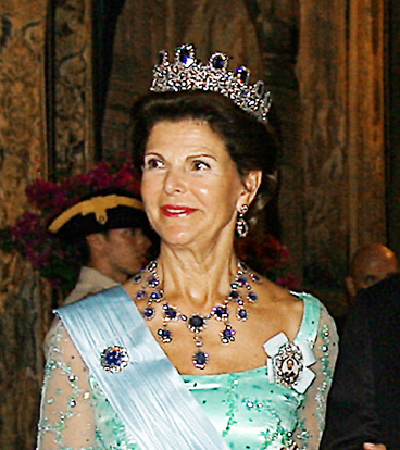 Silvia Sommerlath, queen of Sweden.